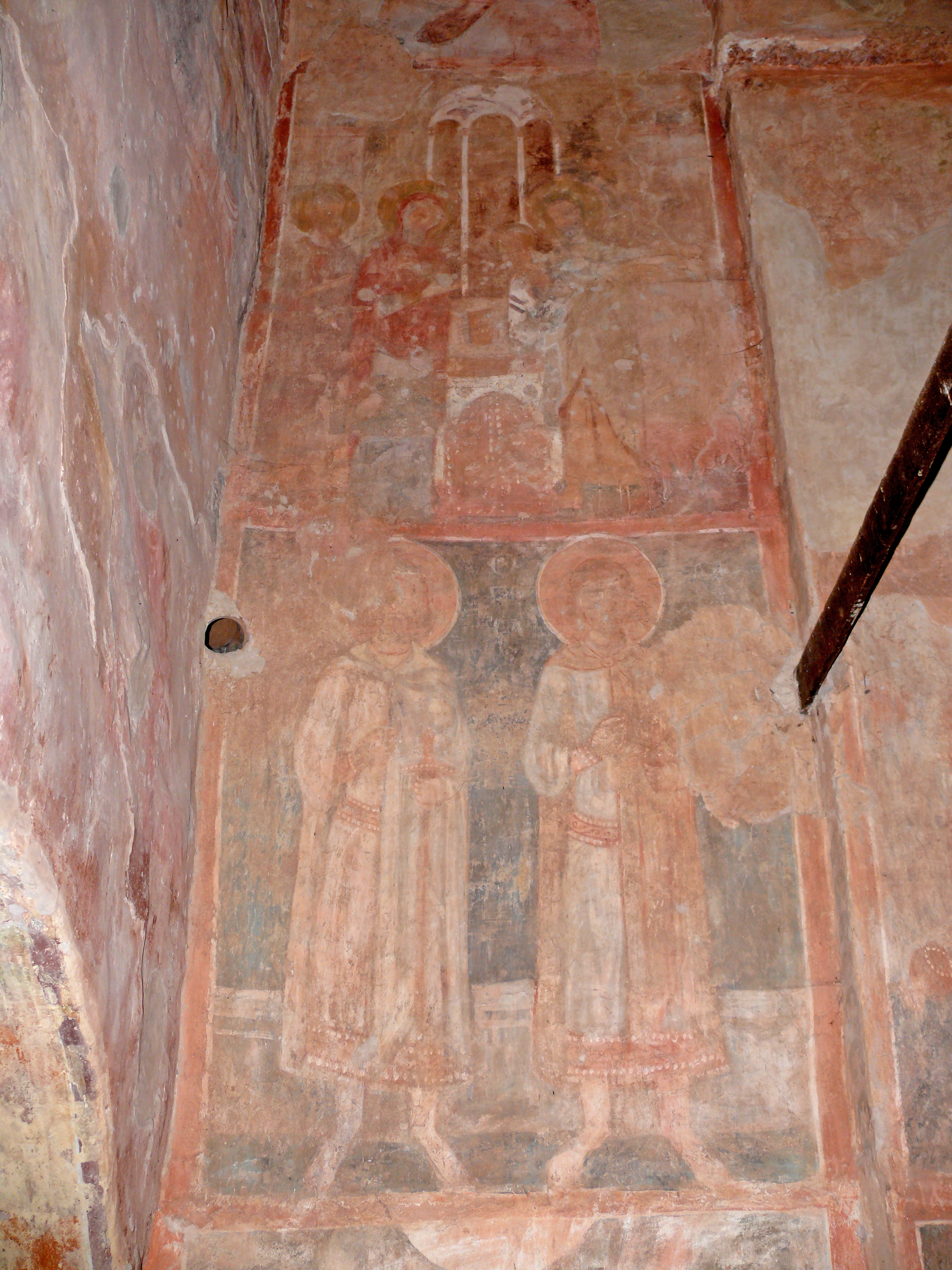 Frescos of Nikola na Lipne church. Veliky Novgorod